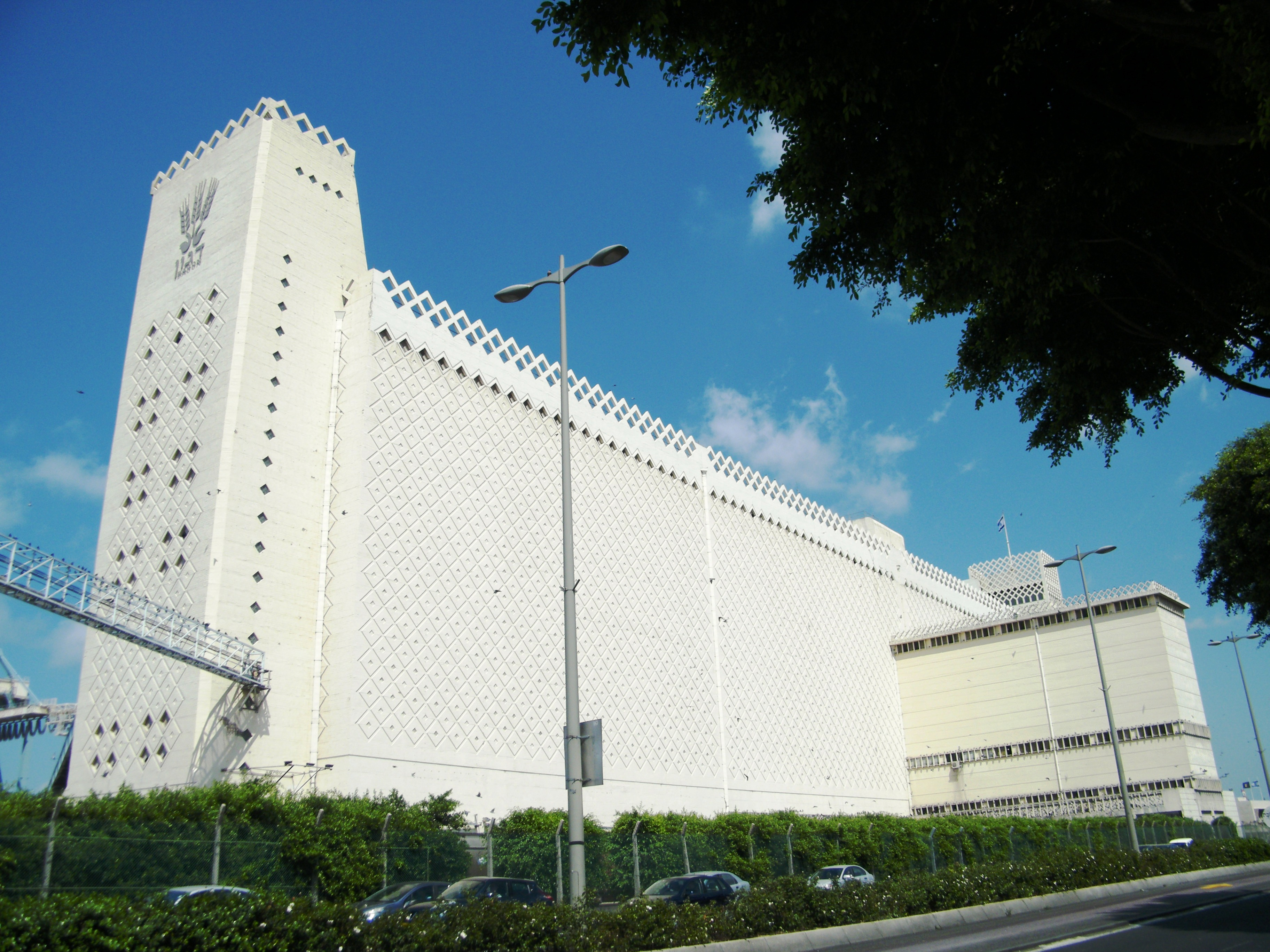 The Dagon in Haifa